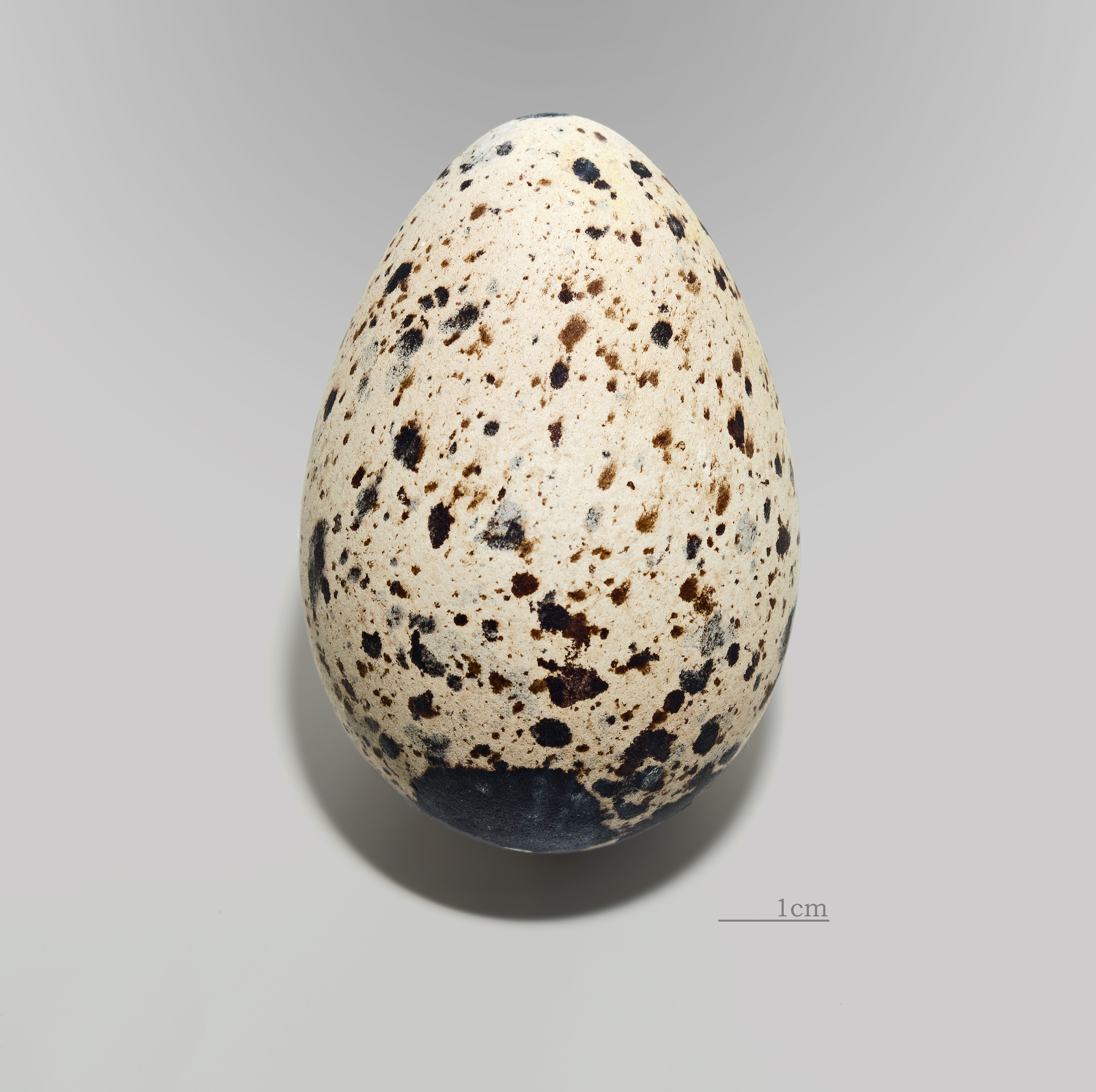 Egg of Razorbill. Collection of Jacques Perrin de Brichambaut.